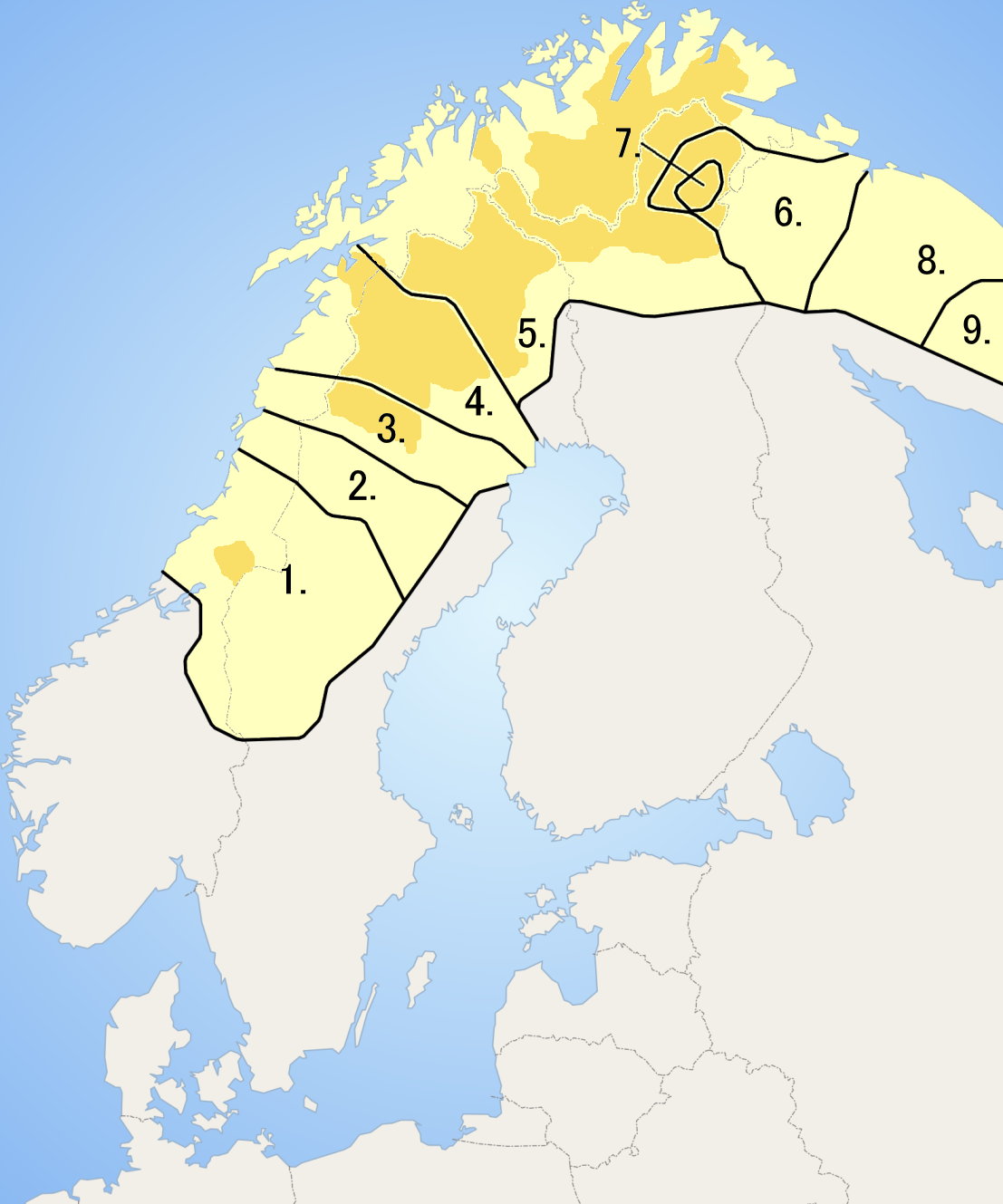 Map of Fennoscandia showing the distribution of Sami languages 1. Southern Sami 2. Ume Sami 3. Pite Sami 4. Lule Sami 5. Northern Sami 6. Skolt Sami 7. Inari Sami 8. Kildin Sami 9. Ter Sami